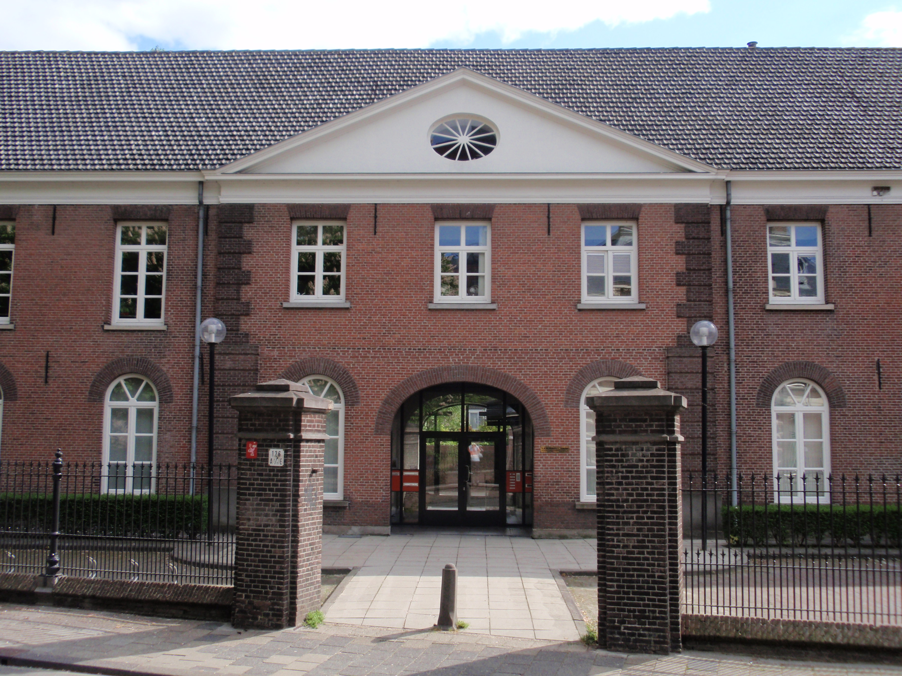 Lanciers Barracks Tilburg